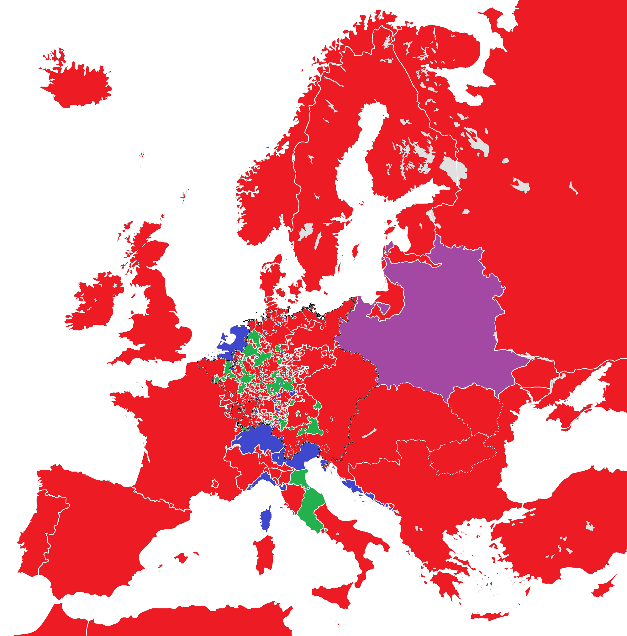 Monarchies, republics and ecclesiastical lands in Europe in 1714. Monarchies Republics Ecclesiastical lands Polish-Lithuanian Commonwealth Free Imperial Cities are counted as republics. Ecclesiastical lands mainly consist of prince-bishoprics in the Holy Roman Empire and the Papal States in central Italy. Because the Polish-Lithuanian Commonwealth was a mixture between an elective monarchy and a republic, and often called and categorised as both, it is rendered in purple.